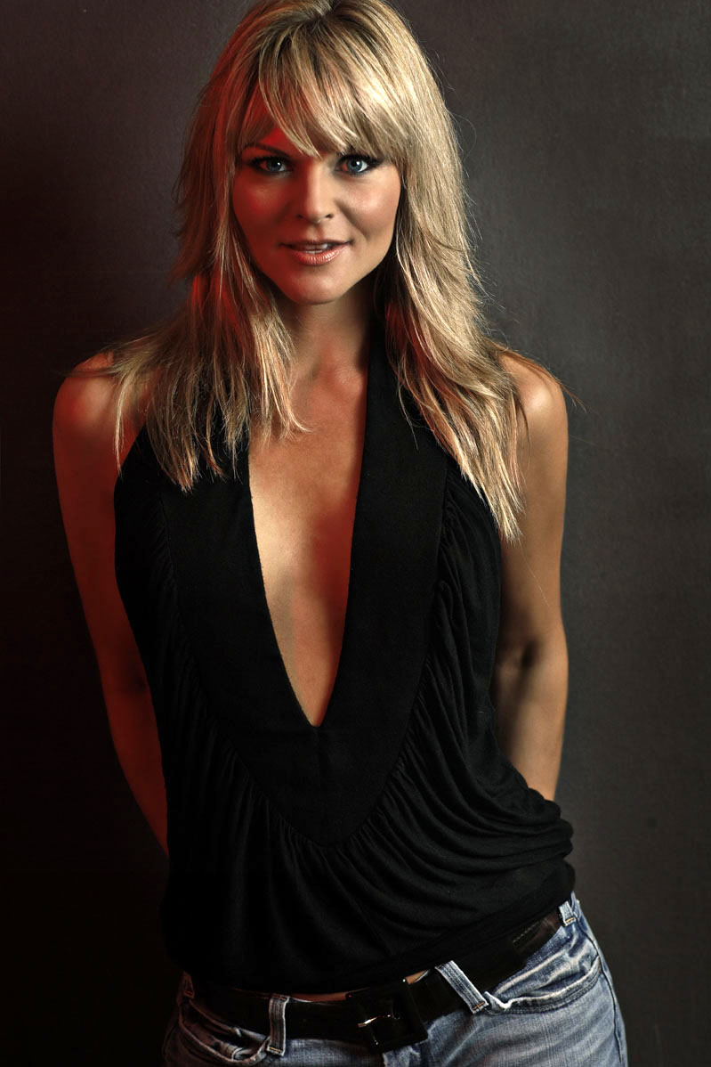 Former pornographic actress Katja K